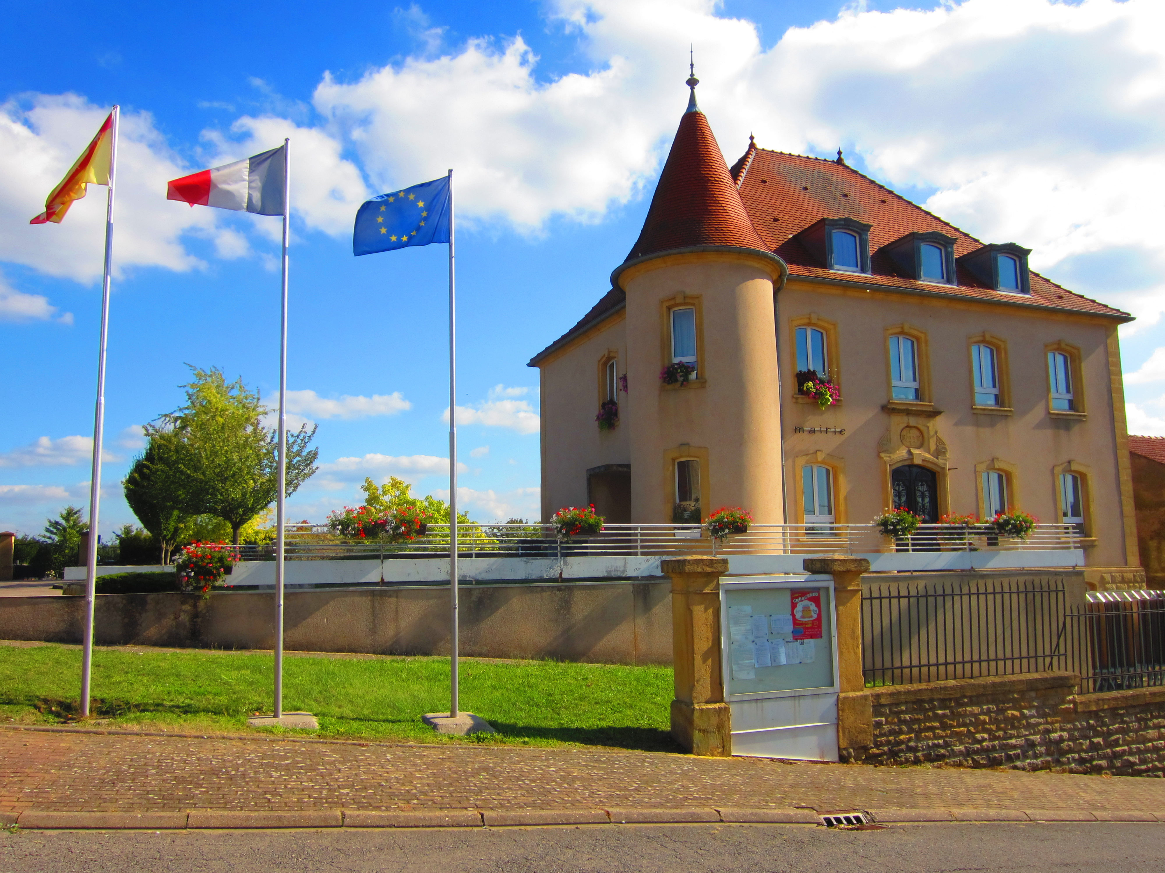 Anzeling town council